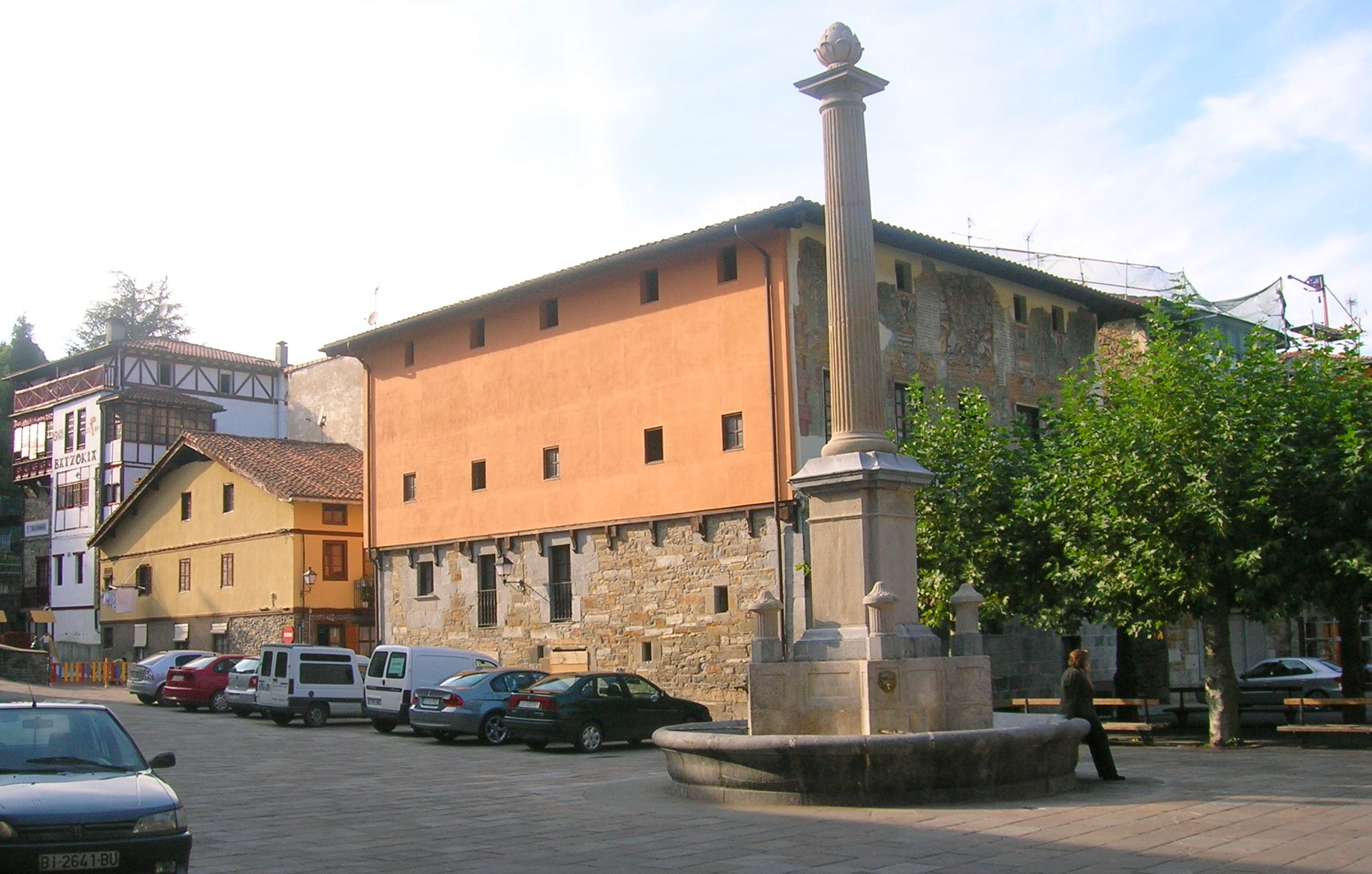 Aska Plaza in Villaro-Areatza, Biscay, Spain. There's a palace behind the fountain, and a batzoki in the upper corner.